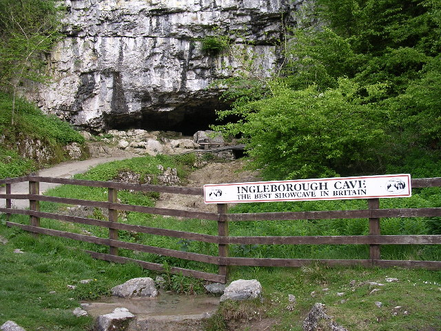 Ingleborough Cave. The entrance to Ingleborough show cave